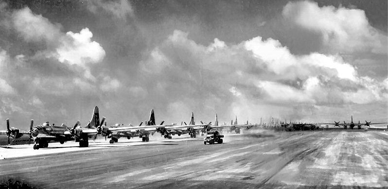 USAAF 39th Bombardment Group Boeing B-29 Superfortress bombers at Northwest Field Guam, in the summer of 1945.